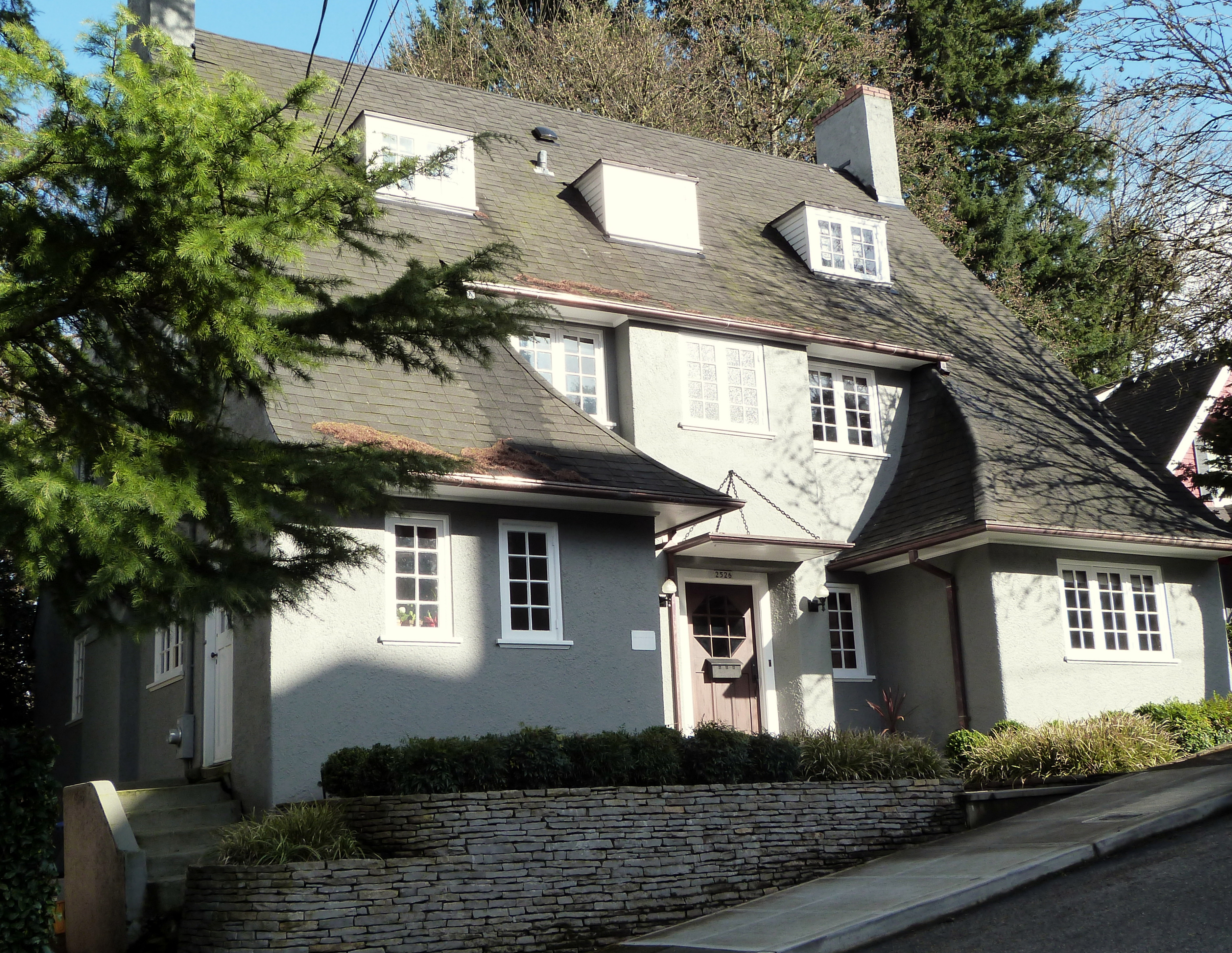 The historic George Pipes House (built 1923), located at 2526 Southwest St. Helens Court in Portland, Oregon, United States, is listed on the US National Register of Historic Places.